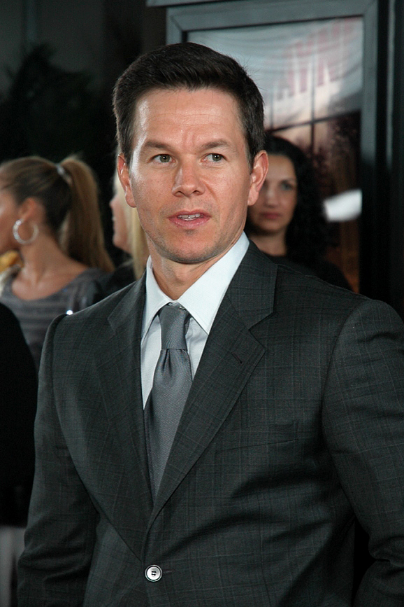 Mark Wahlberg attending the Premiere of "Max Payne", Hollywood, CA on 10/13/2008